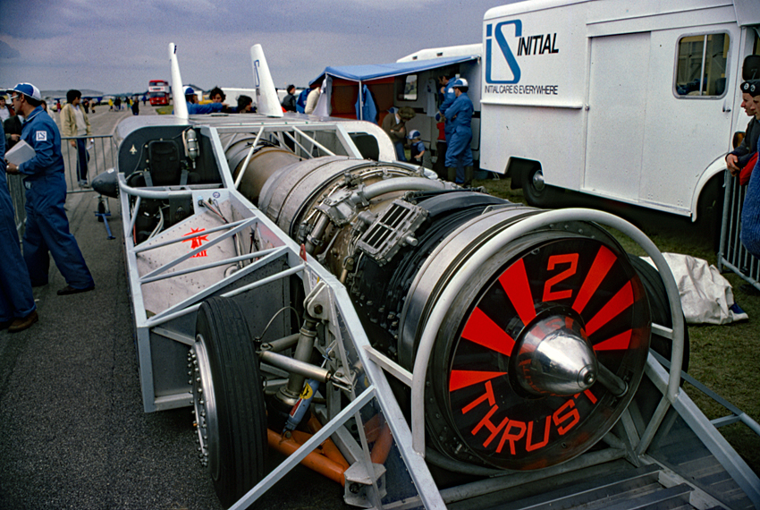 Thrust2 chassis without the cladding at the Bournemouth Air Show in 1980. Scanned from a Kodachrome 35mm slide.